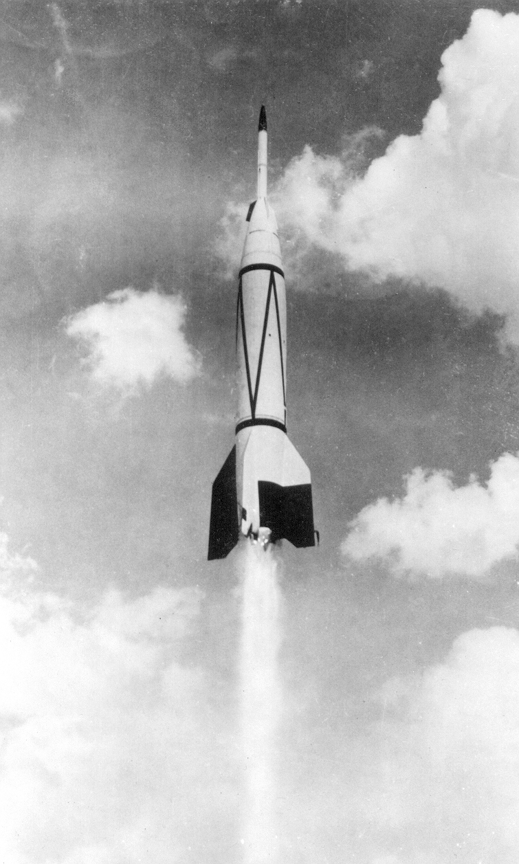 On February 24, 1949 a high altitude test vehicle called BumperWAC launched from White Sands Proving Ground. It reached arecord altitude of two hundred and fifty miles- the "firstrecorded man-made object to reach extraterrestrial space." Thisrecord held until 1957. Its first stage was a V-2 (German A-4)rocket, the warhead replaced by a launching compartment. Afterthe V-2 shut down, there was a high altitude "bump," whichprovided the name for the rocket. The photo shows the secondstage, a modified WAC Corporal sounding rocket, mounted in thenose cone. The Jet Propulsion Laboratory was responsible fordesign study, development, and testing of the Bumper WAC incooperation with General Electric and Douglas Aircraft, for theArmy Ordnance Department. Bumper WAC was the world's first largetwo-stage liquid propellant rocket.